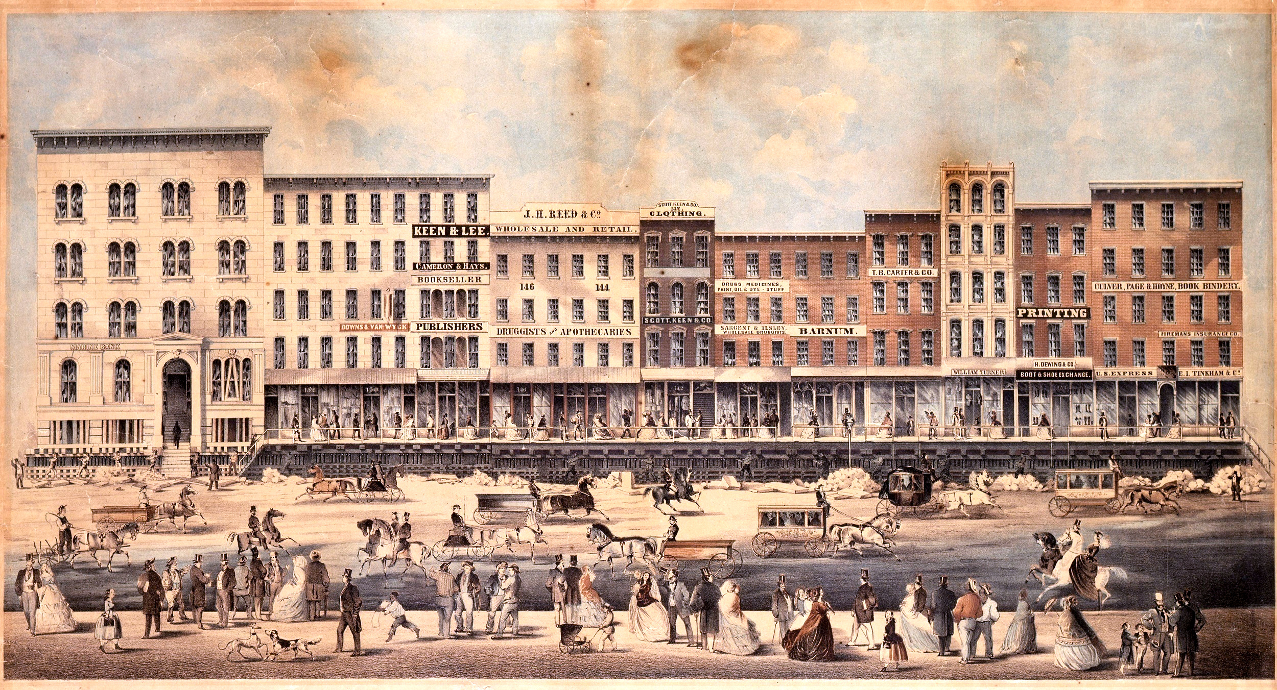 raising of a block of brick buildings on lake street, chicago, in 1857.